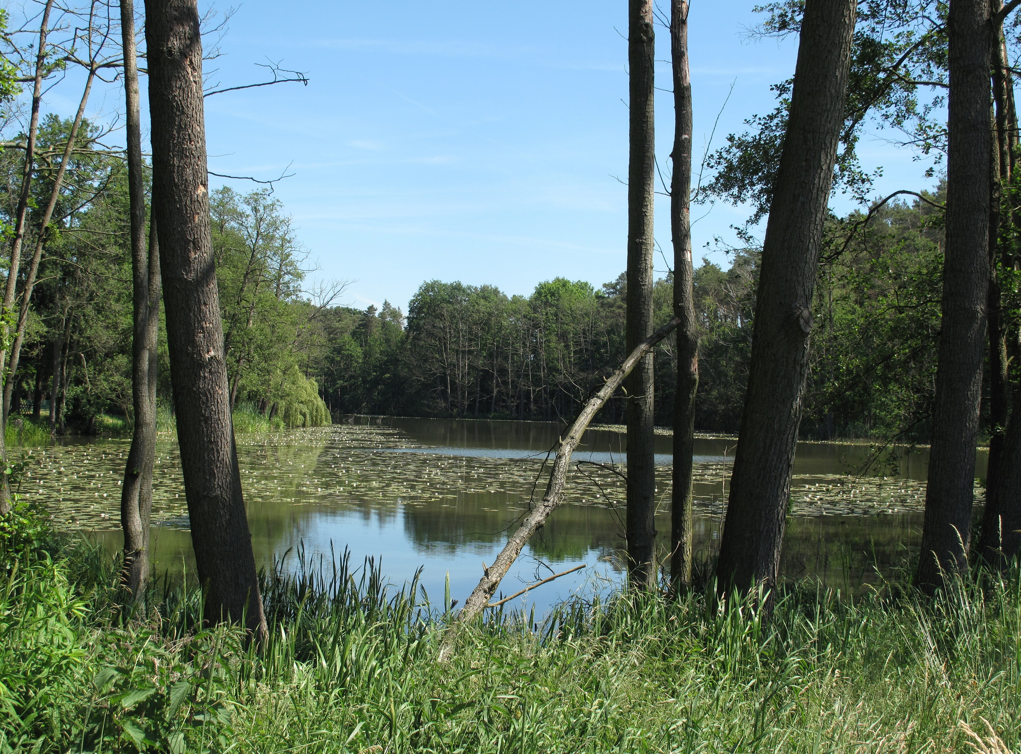 View from the southern shore of the Herzberger See to the north. The Herzberger See is a lake in in the village Herzberg, a part (german: Ortsteil) of the municipality Rietz-Neuendorf in the District Oder-Spree, Brandenburg, Germany. The lake covers 13 hectare. The long-drawn groove lake is the most northern water of a five-part chain of lakes, which is connected by the Blabbergraben. The Blabbergraben drains the lakes to the south into the river Spree.